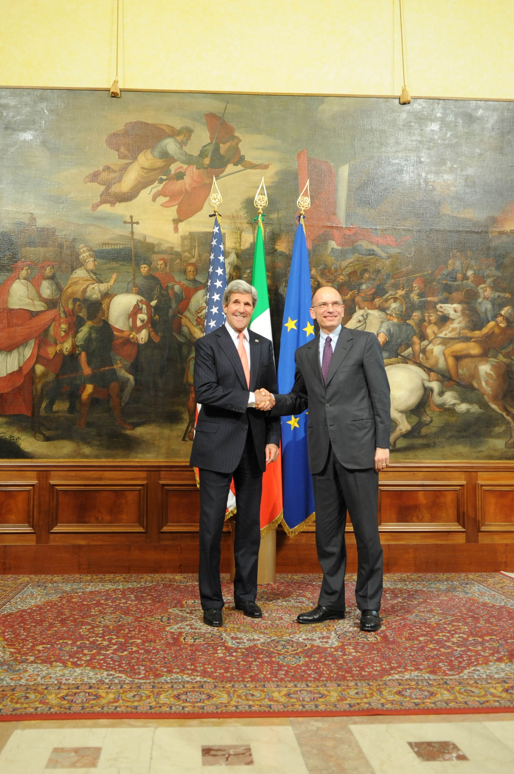 U.S. Secretary of State John Kerry meets with Italian Prime Minister Enrico Letta on May 9, 2013, at Palazzo Chigi in Rome, Italy. [State Department photo/ Public Domain]